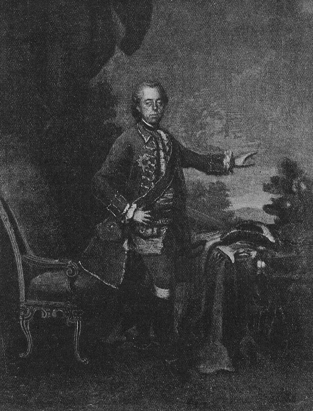 Karl Gotthelf von Hund und Altengrotkau (1722-1776). Founder of the Strikte Observanz.